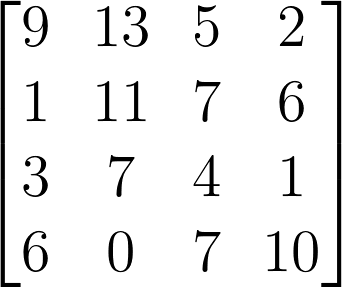 Square matrix from generated using